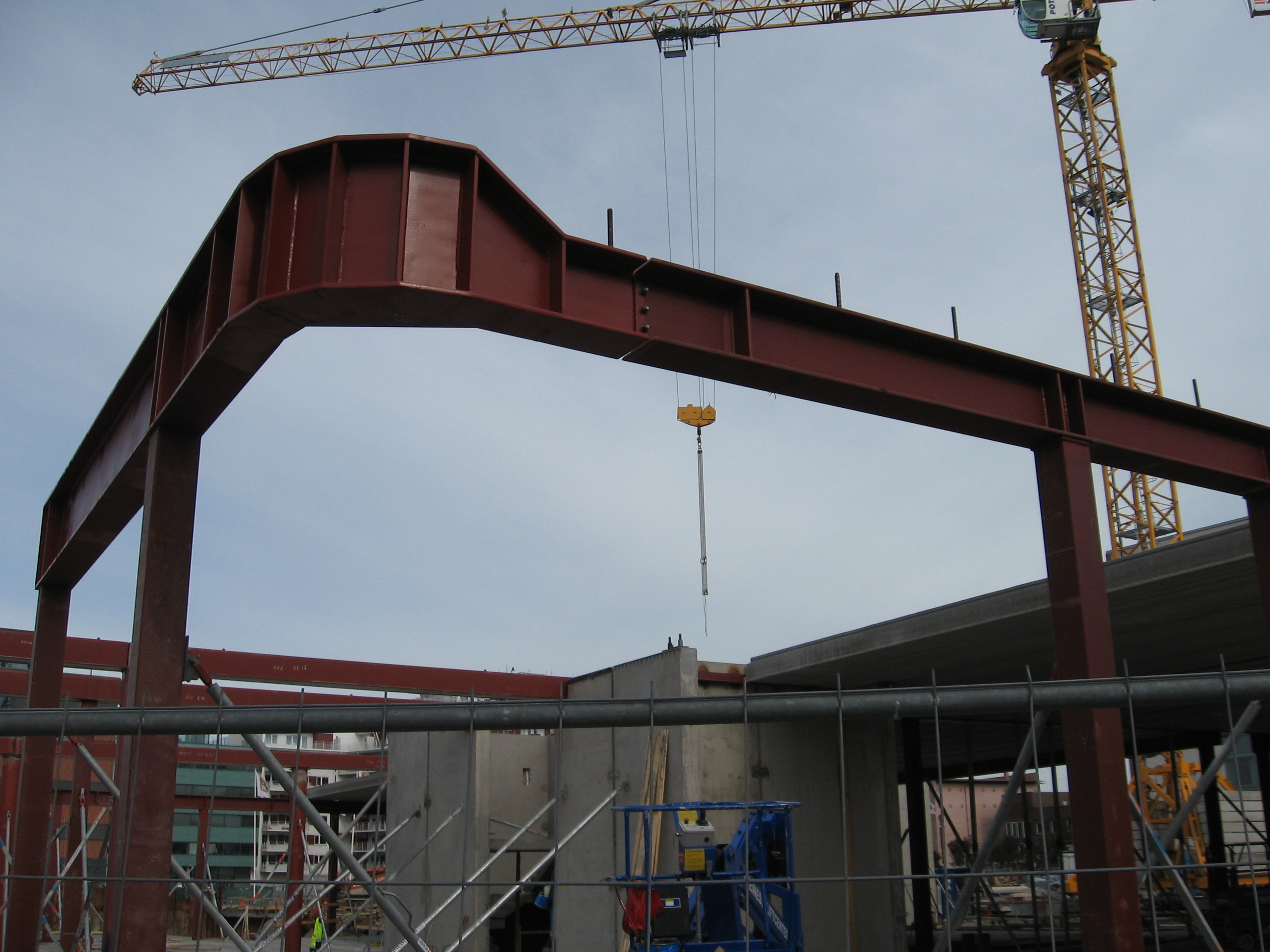 Girder Skrovet 5 Malmö